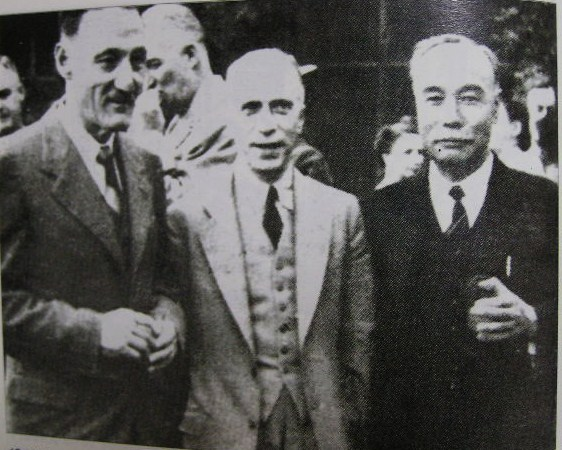 1946. 5 Yuh Woon-Hyung, Over 65 years.